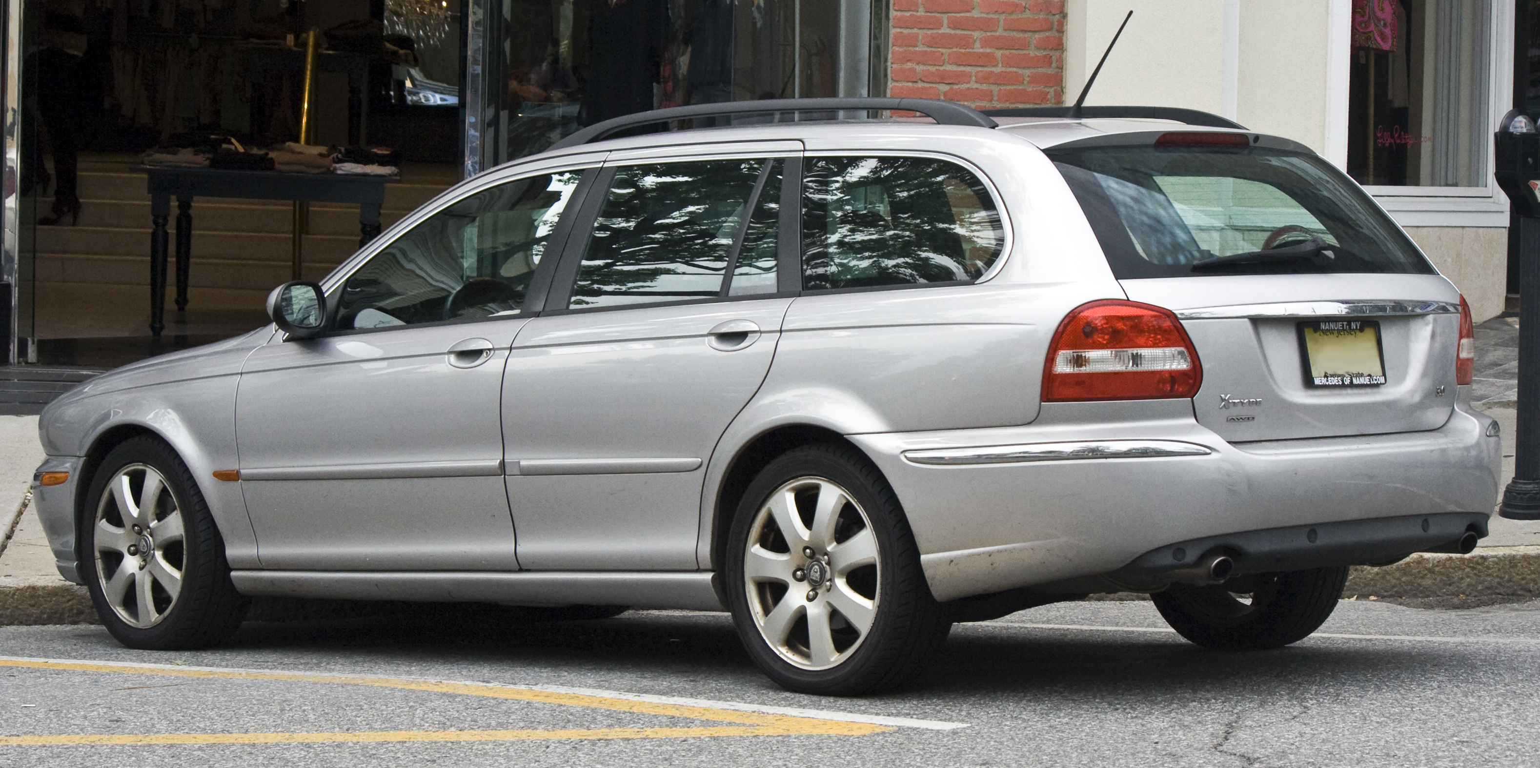 Jaguar X-Type 3.0 AWD Station Wagon